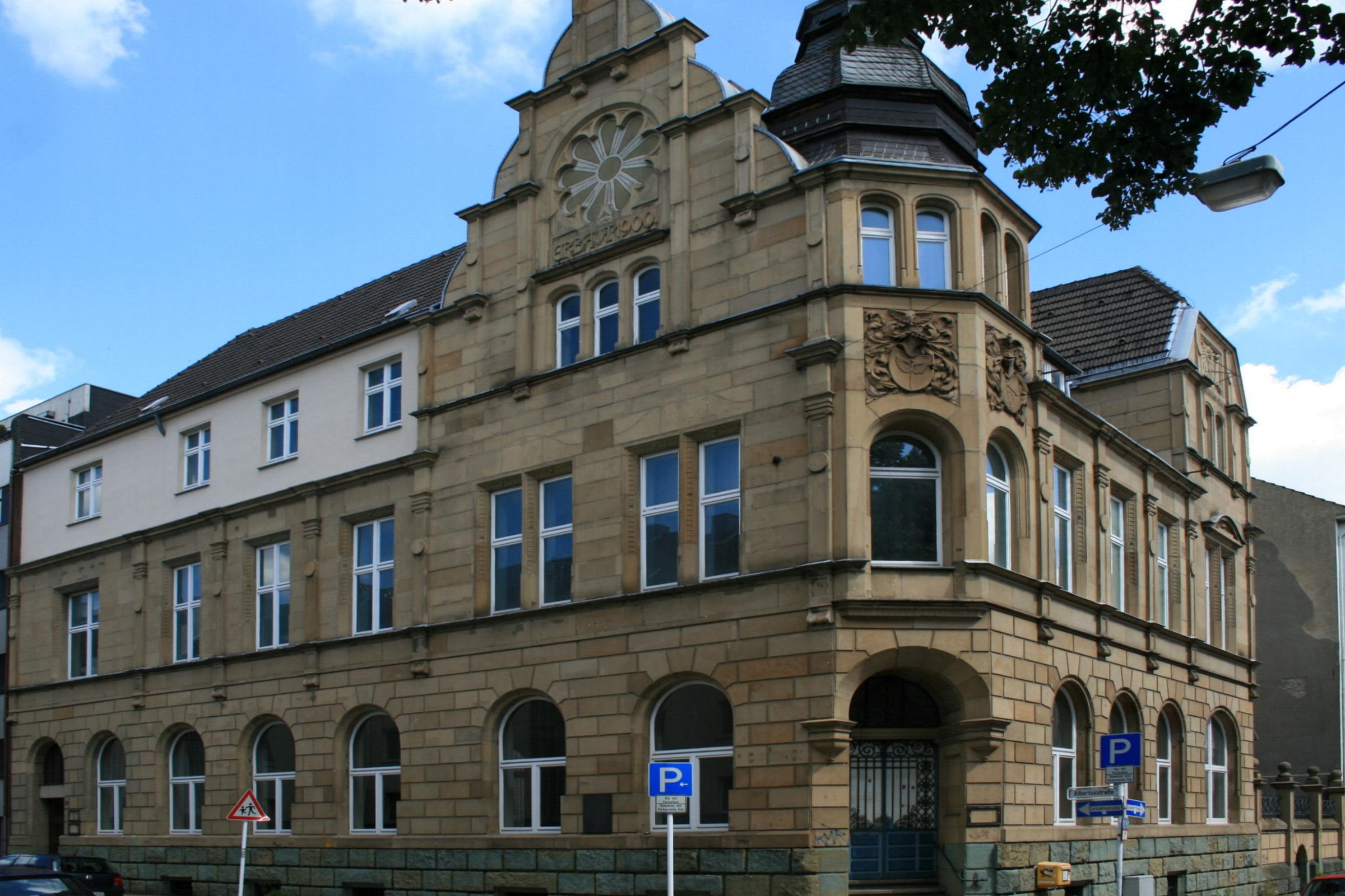 Cultural heritage monument No. A 027 in Mönchengladbach